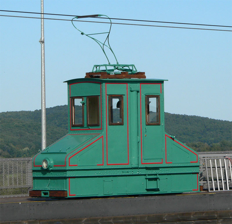 tow loco